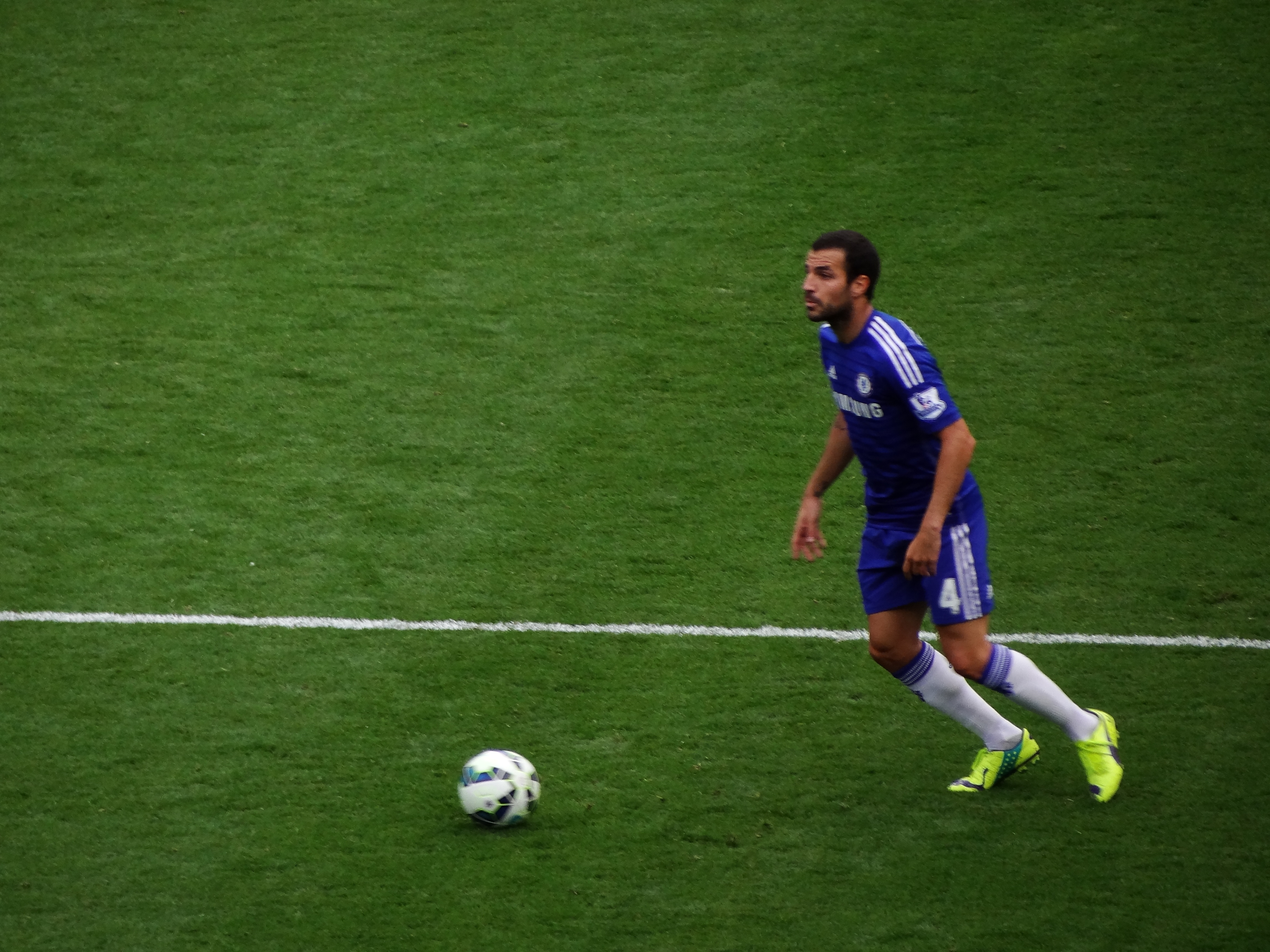 Cesc Fabregas playing for Chelsea FC